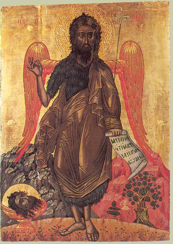 icon of John Baptist as "Angel of desert".